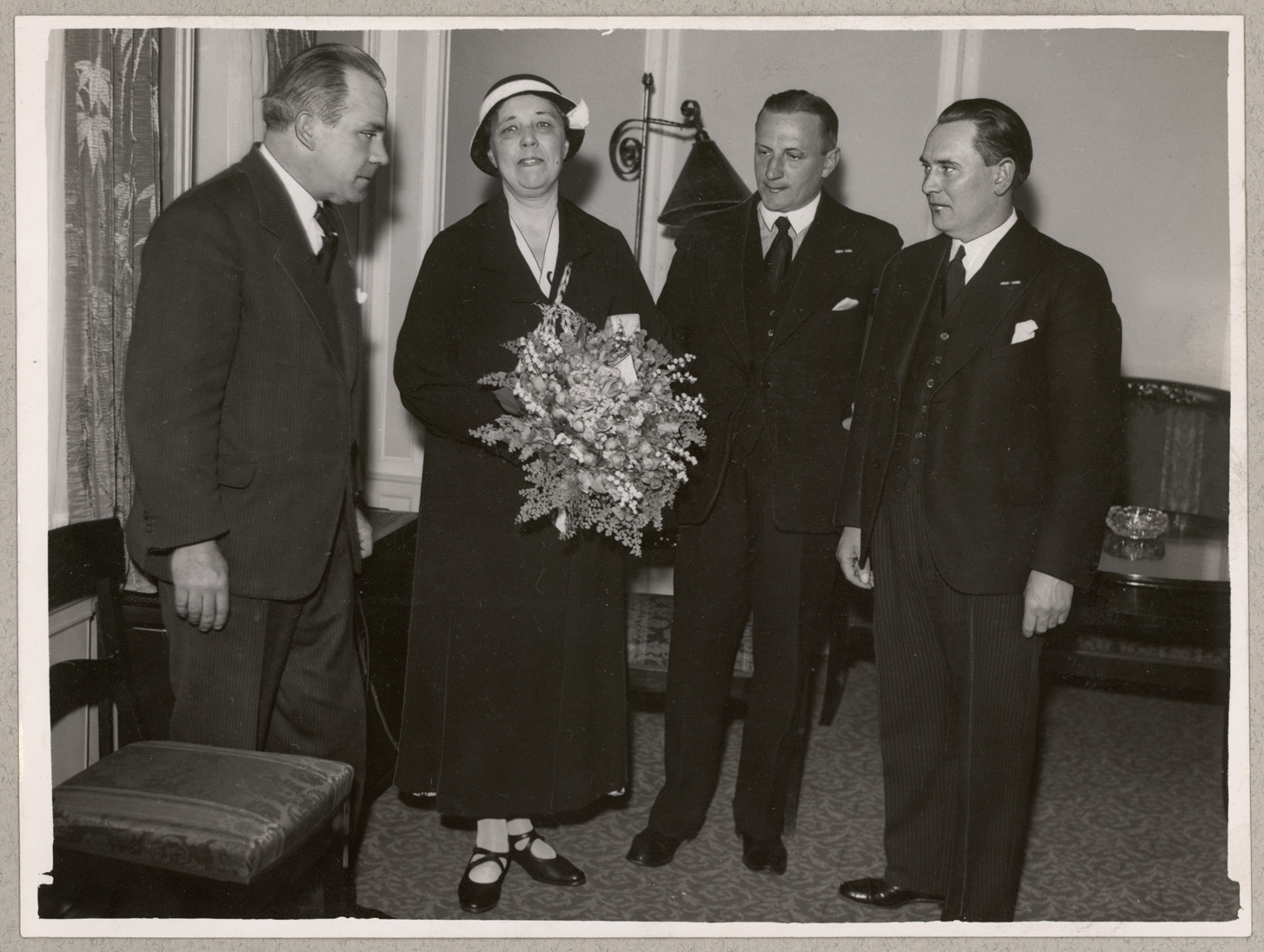 Elna Munch (1871-1945). Det Radikale Venstre / the Social Liberals. Folketinget 1918-35. KB id: ke017053 Department of Maps, Prints and Photographs, The Royal Library, Denmark.